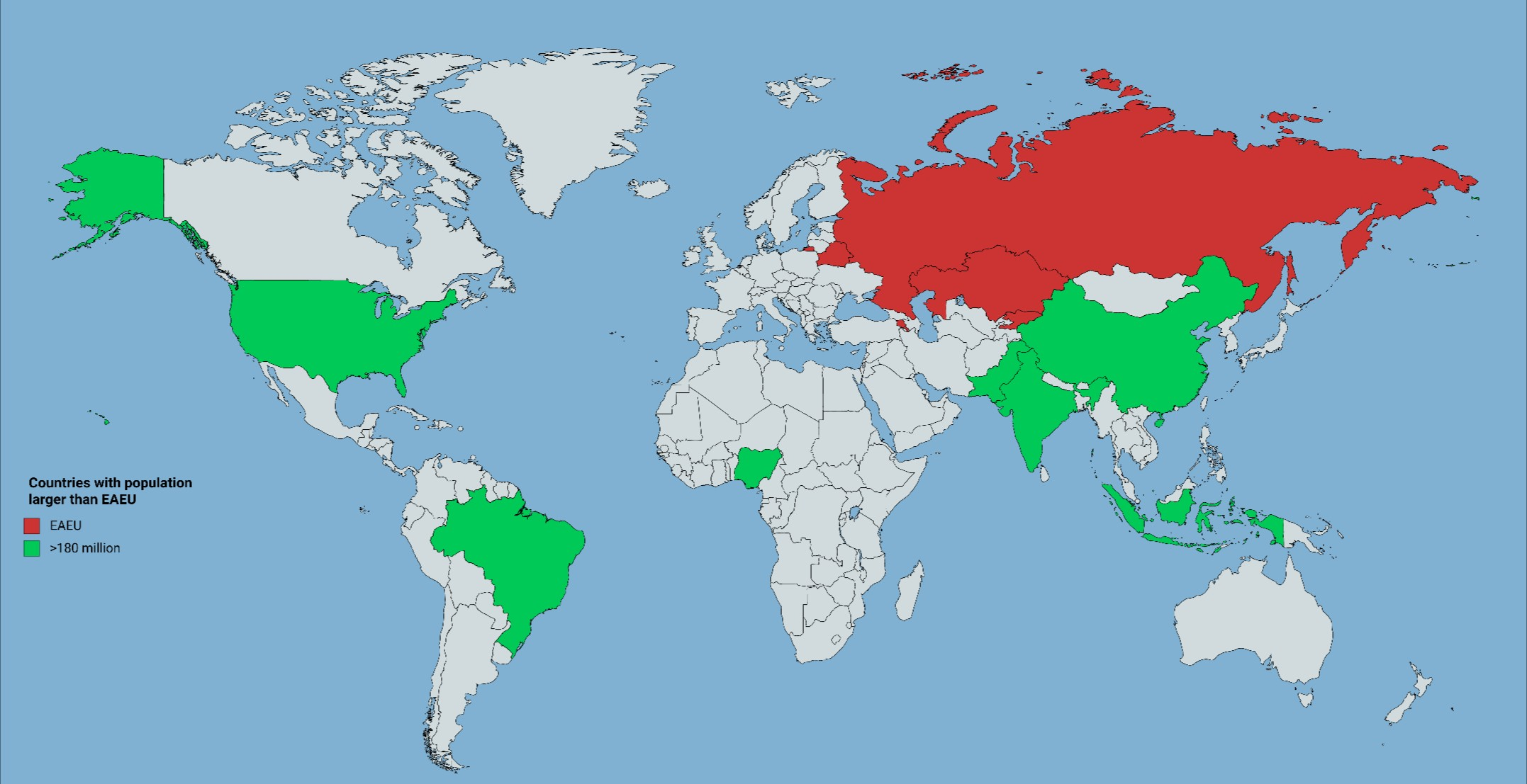 Countries with population larger than Eurasian Economic Union